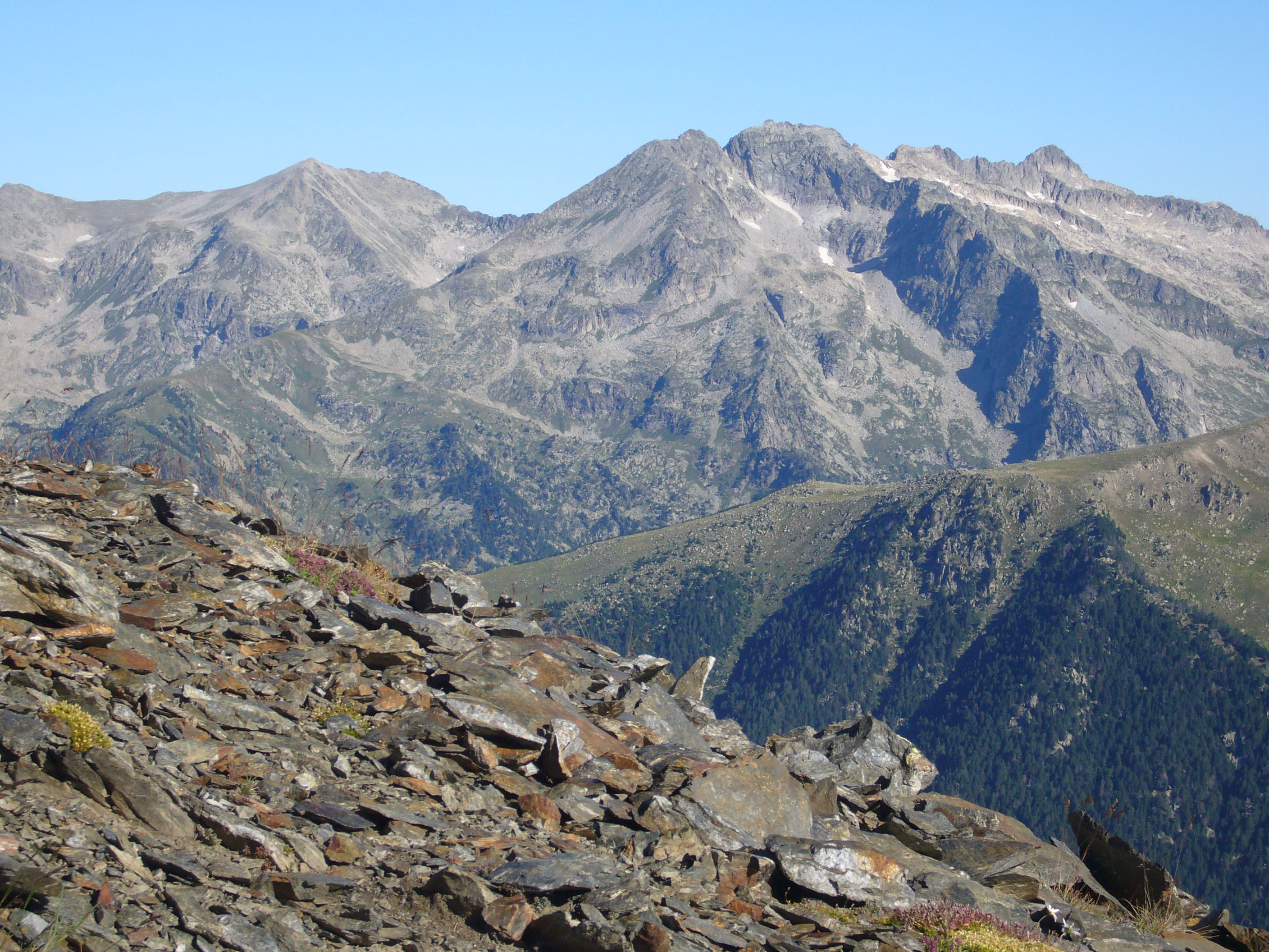 Punta Senyalada, Comaloforno i Massís de Besiberri viewed Tuc de Carants; la Vall de Boí, Alta Ribagorça, Catalonia